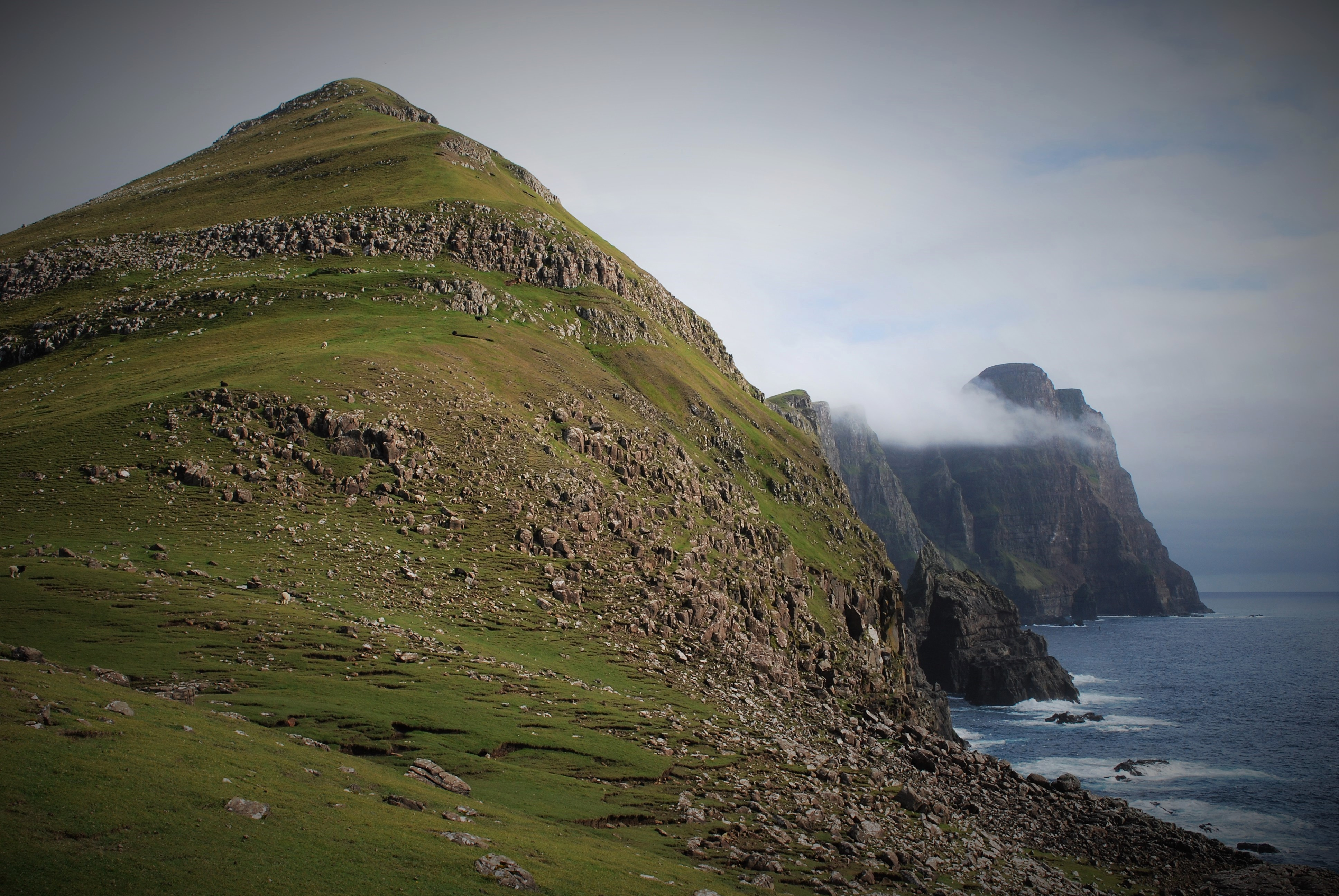 South of Lopransseiði, Suðuroy, Faroe Islands